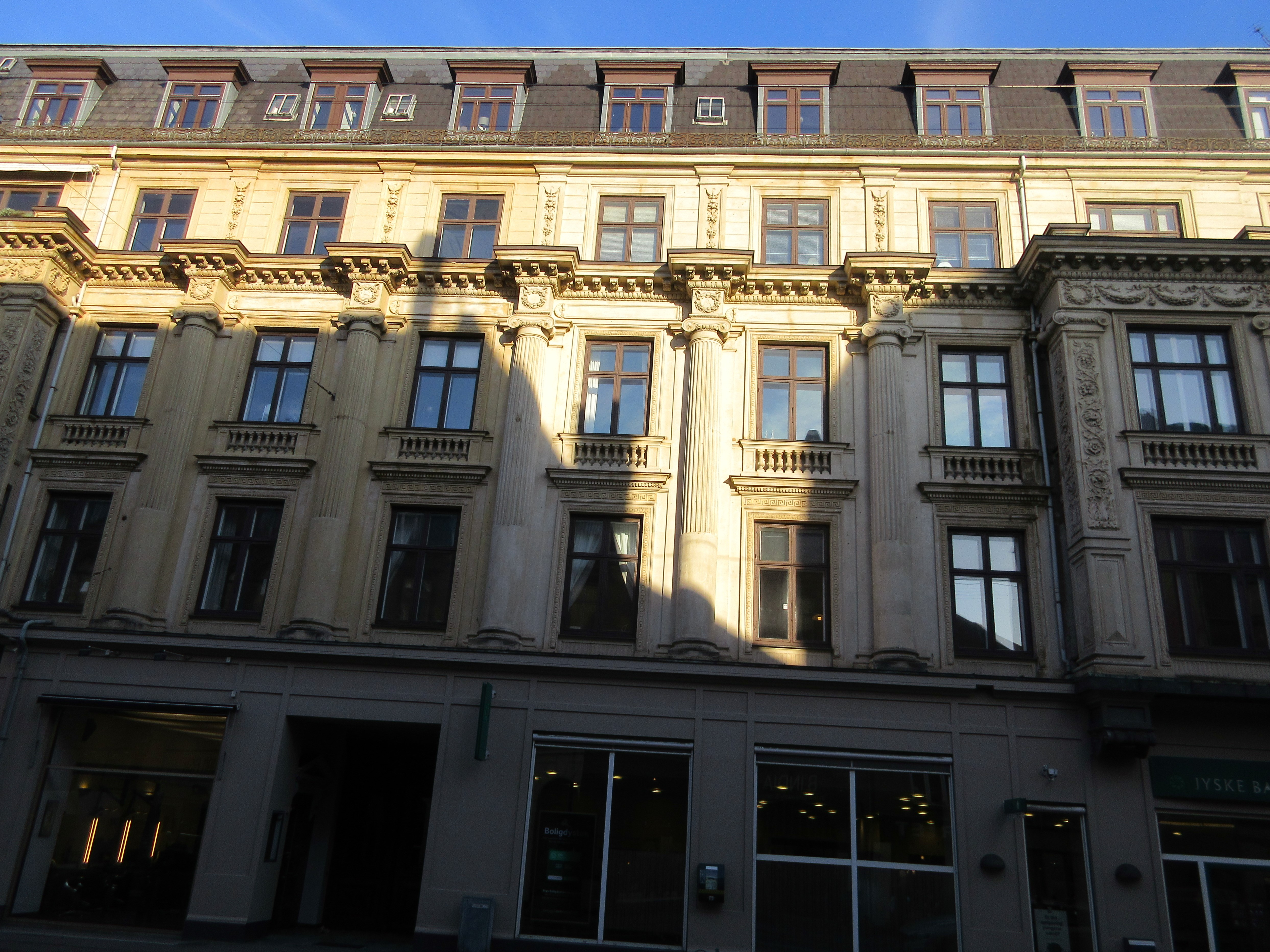 Gammel Kongevej 136-138 in Frederiksberg, Denmark